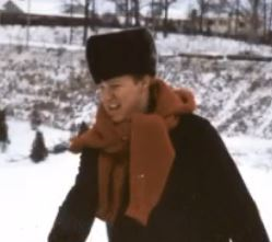 Chris at play in the snow (!) Family photo